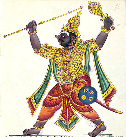 The demon Kumbhakarna